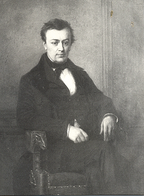 Photo of Prudens van Duyse from a painting by T. S. Canneel (about 1830).